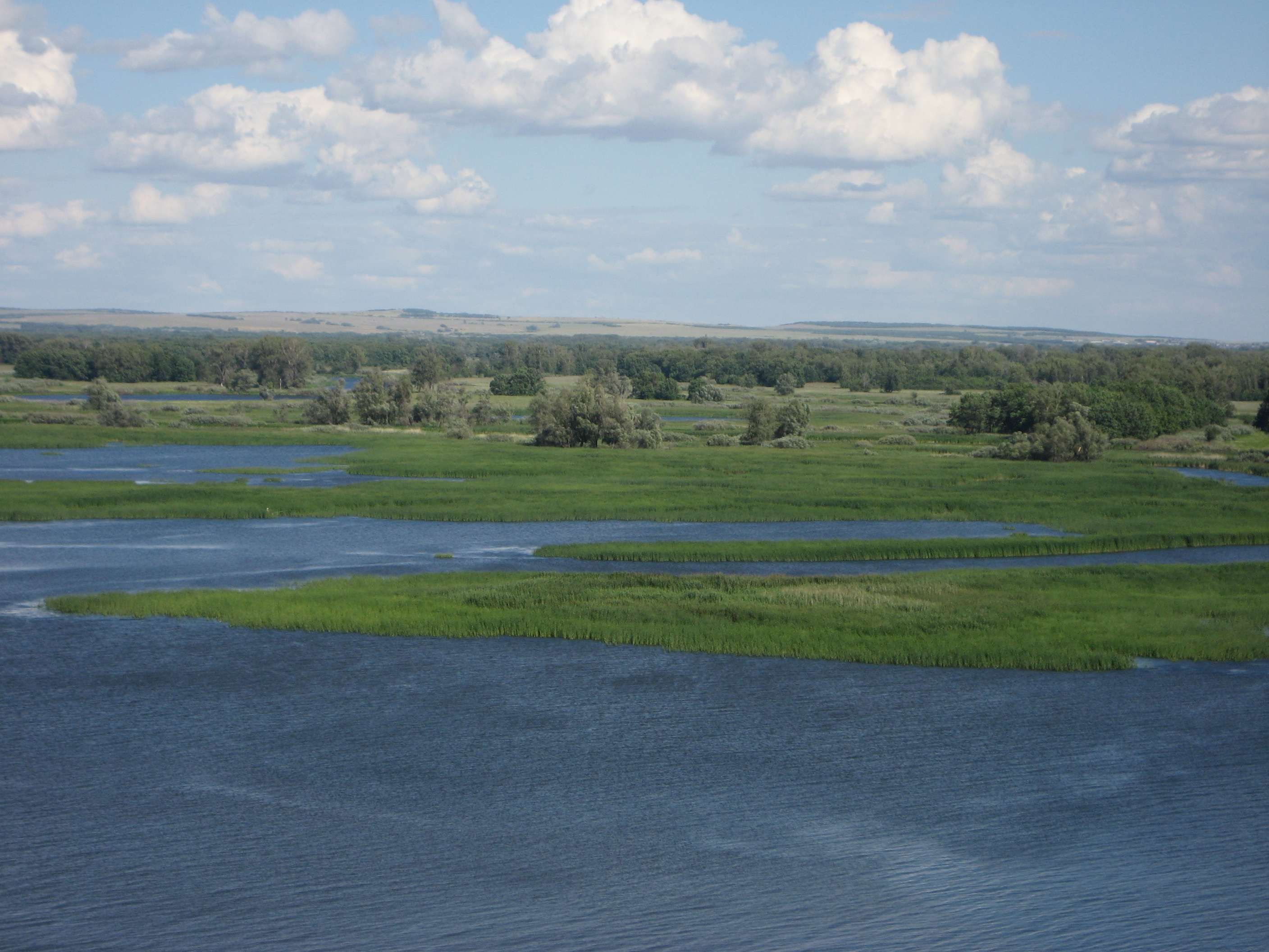 The river Tereshka mouth (Saratov region)